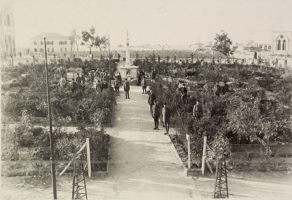 Beersheba in 1917